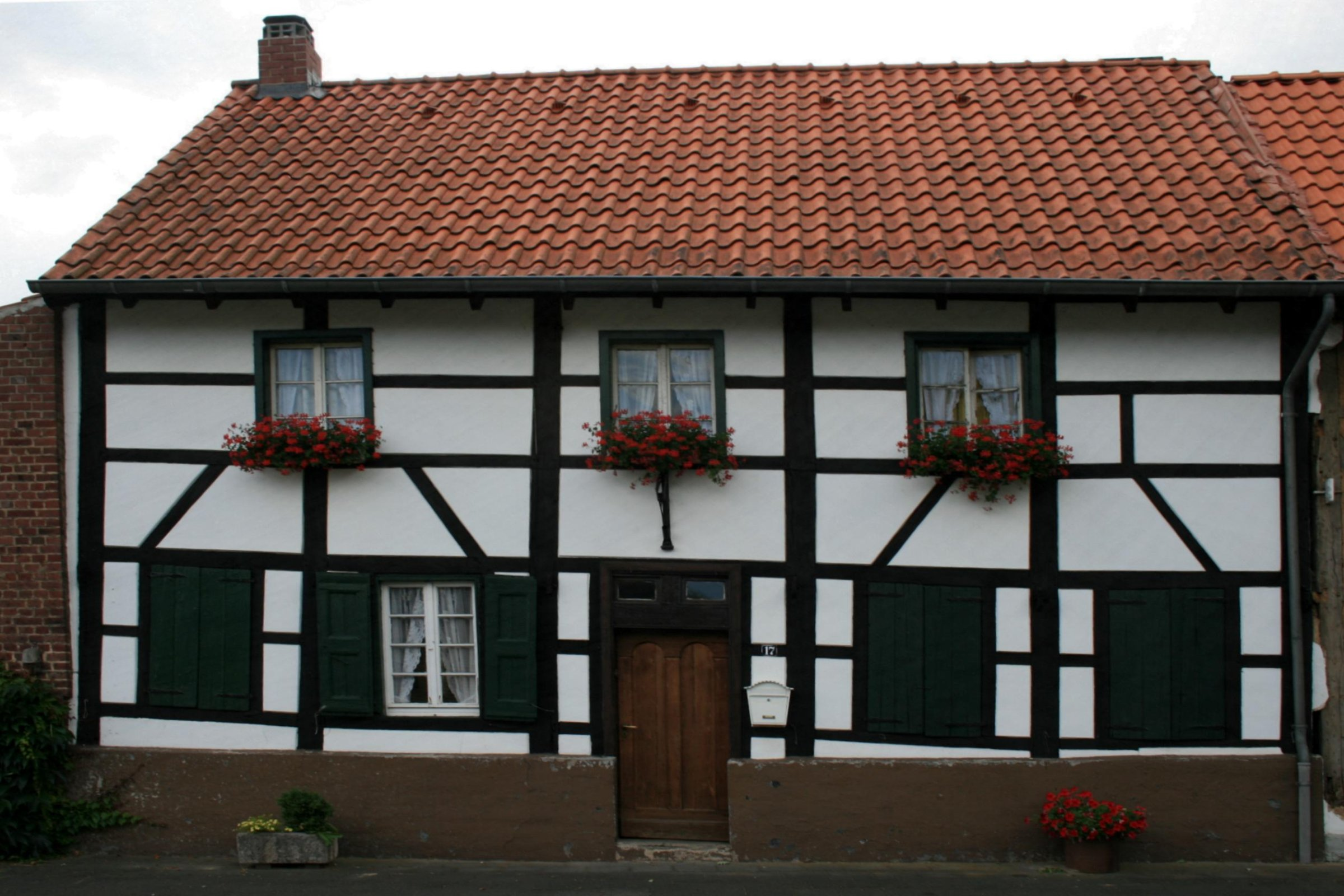 Cultural heritage monument No. K 030 in Mönchengladbach